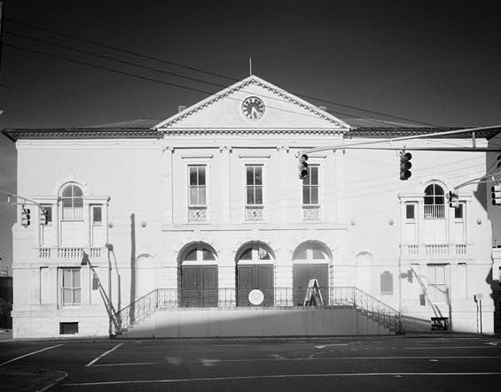 Exchange Building & Custom House, 122-26 East Bay Street, Charleston, Charleston County, South Carolina (Cropped)